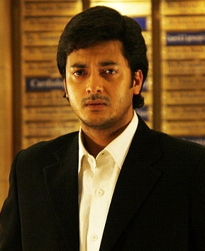 Image of Jishu Sengupta, Bengali actor